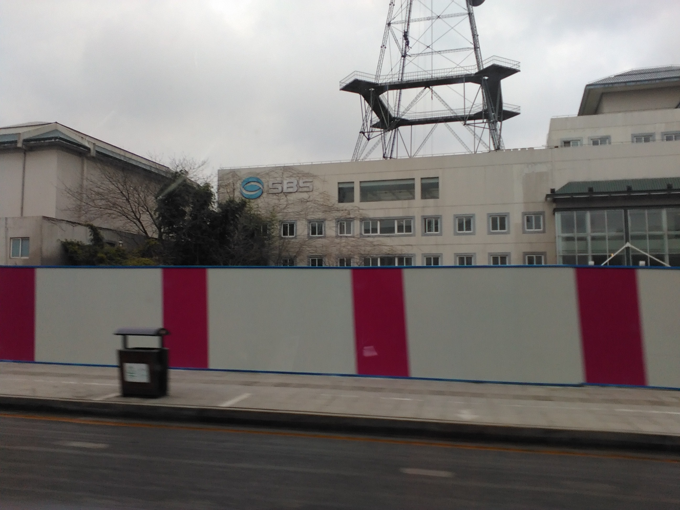 The former headquarters of Suzhou Broadcasting System, located on Zhuhui Road, Gusu District.